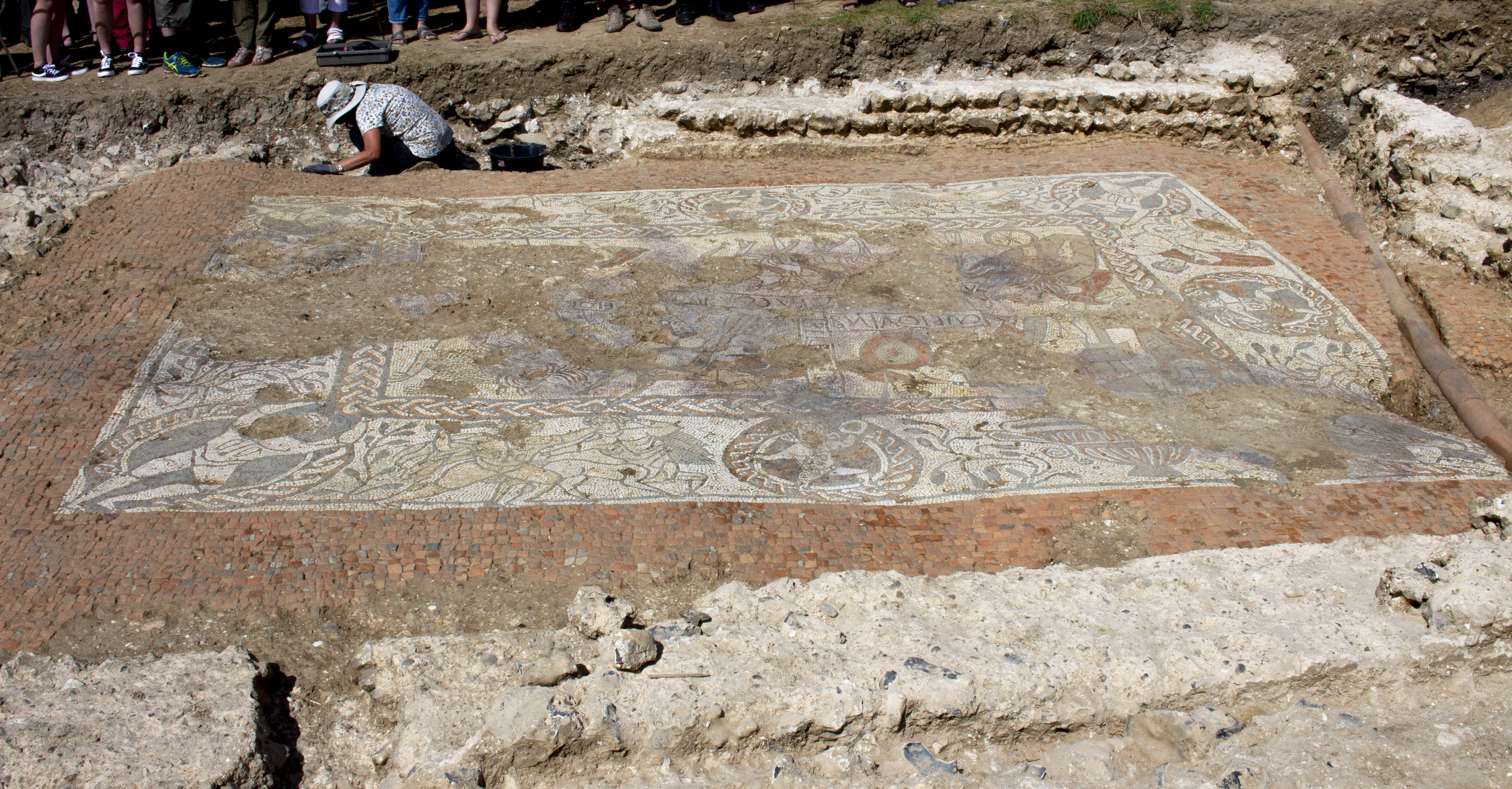 Taken during a public open day after excavations in August 2019